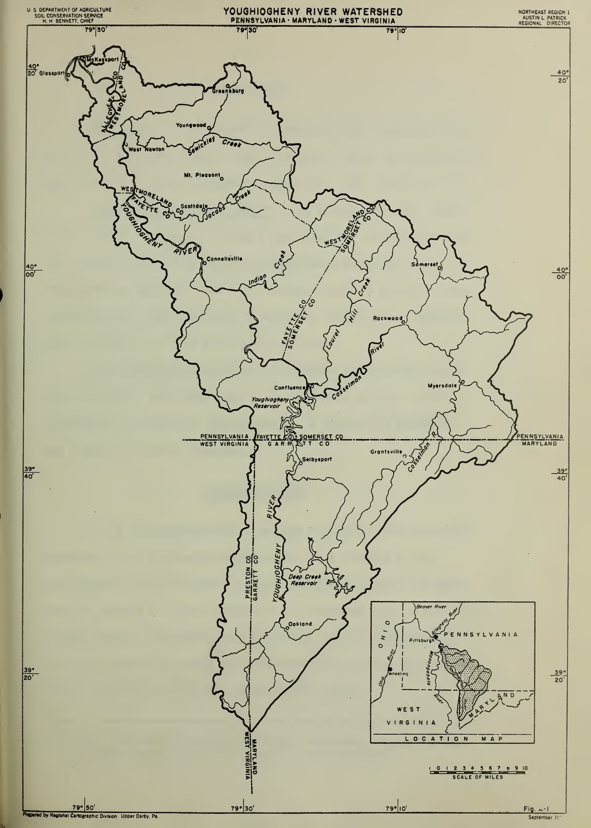 Map of Youghiogheny River Watershed in Pennsylvania, Maryland, and West Virginia taken from Survey Report: Youghiogheny River Watershed: Program for Runoff and Waterflow Retardation and Soil Erosion Prevention. Washington, DC: U.S. Dept. of Agriculture. 1951.